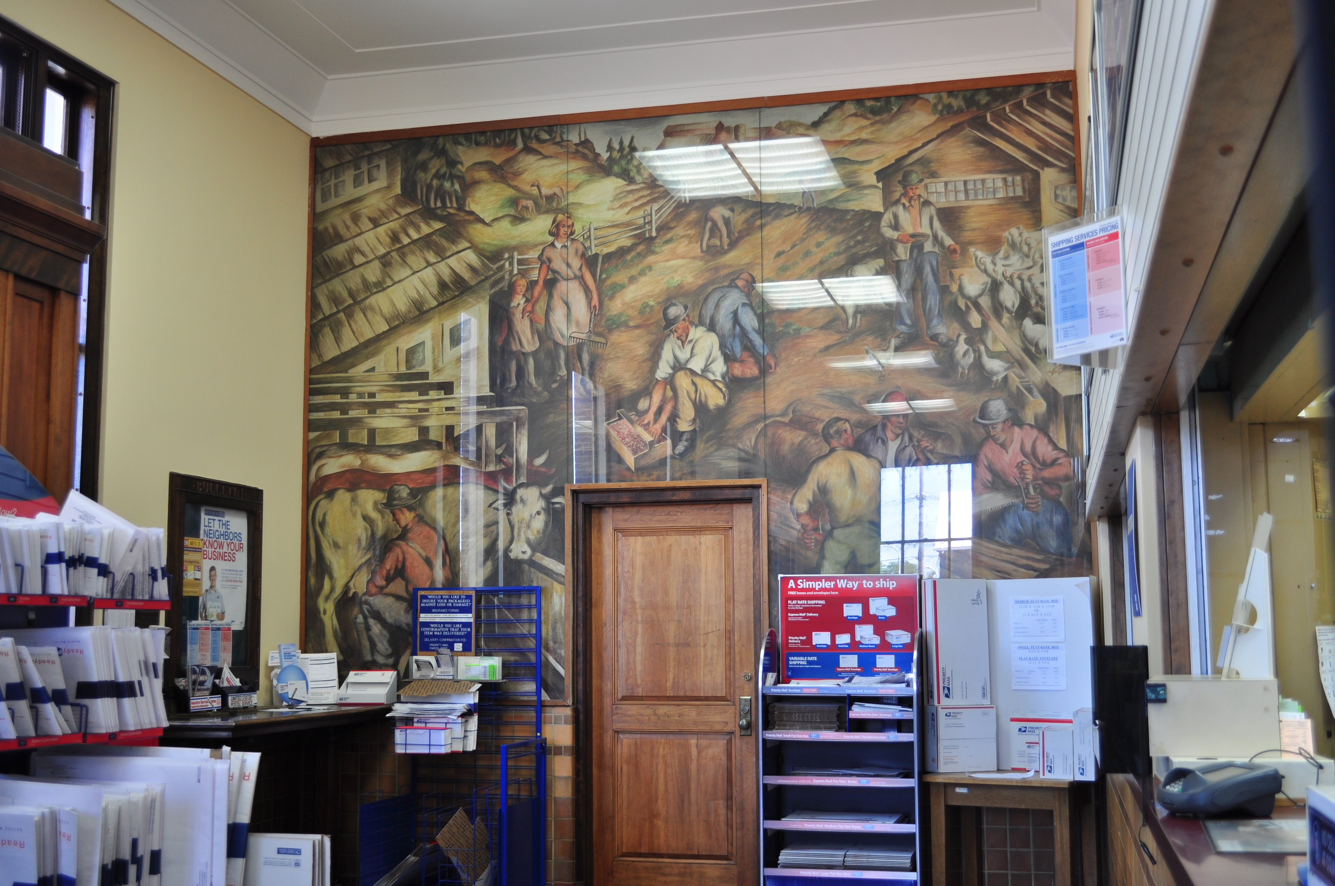 Mural "Industries of Lewis County" (Kenneth Callahan, 1938, oil on canvas) in Centralia, Washington main post office, 214 W. Locust Street, Centralia, Washington, USA. The building is listed on the National Register of Historic Places.